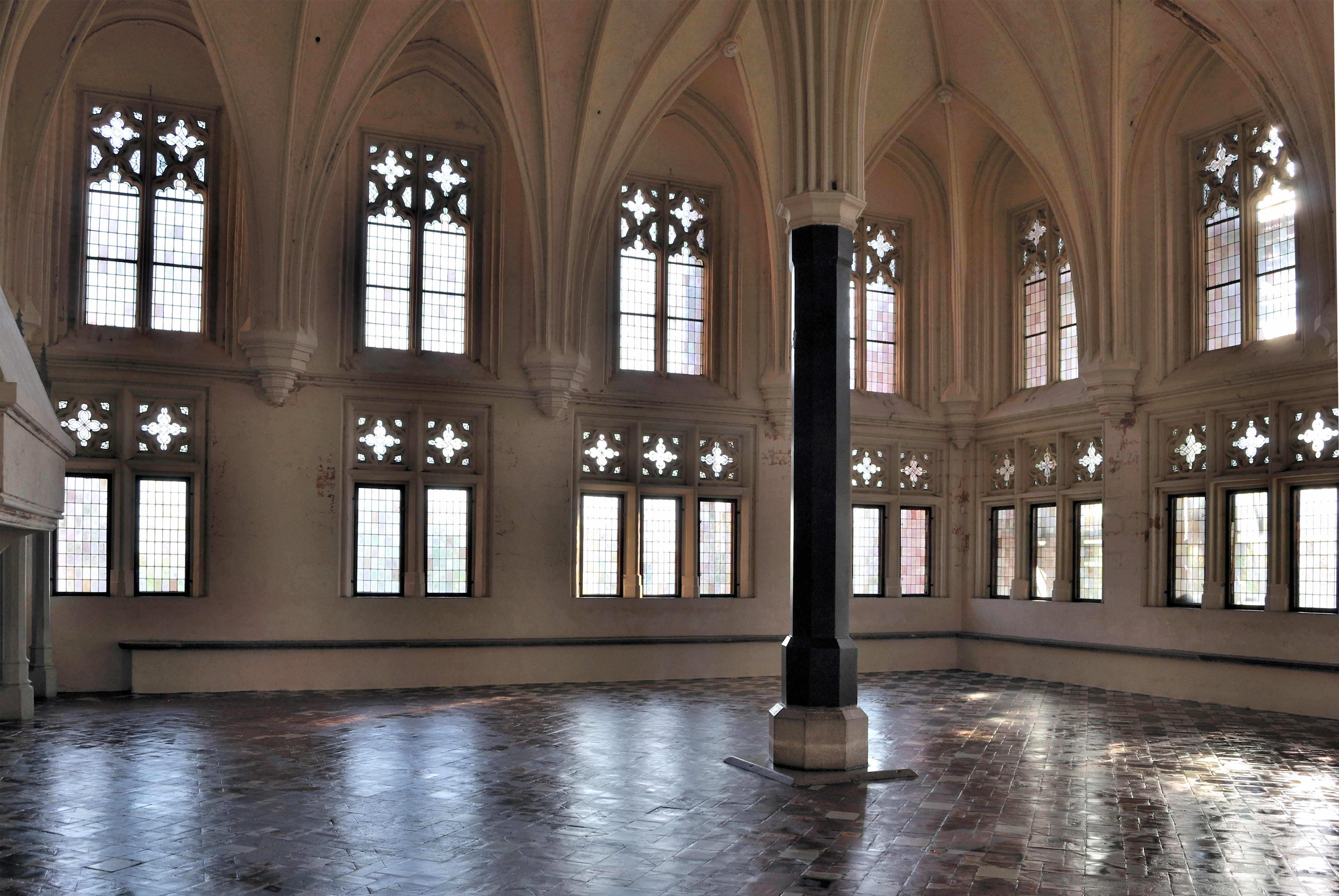 Picture taken in Malborg after Wikimania 2010 conference.